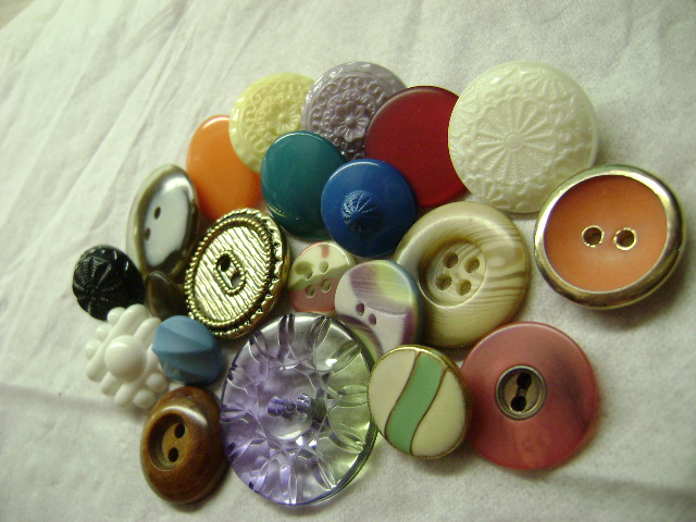 Vintage sewing buttons.